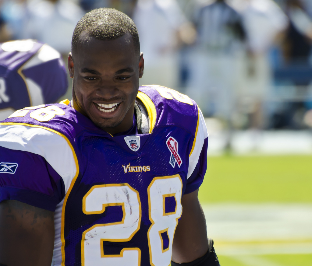 AP, HB, playing for the Vikings